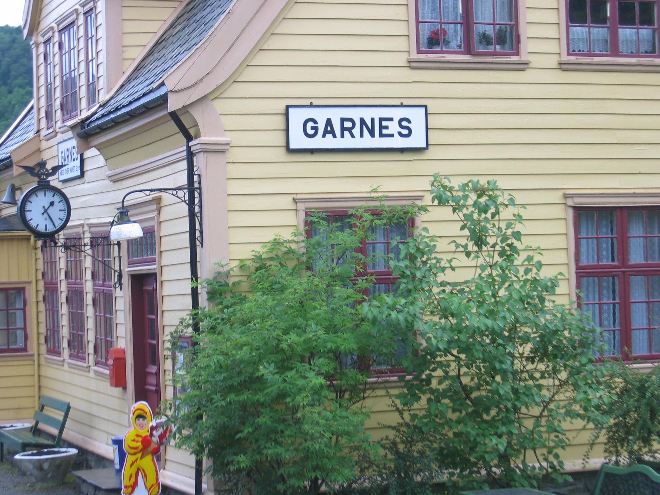 Picture of the original Vossebanen station closed in 1964. Restored in the years to 1993.